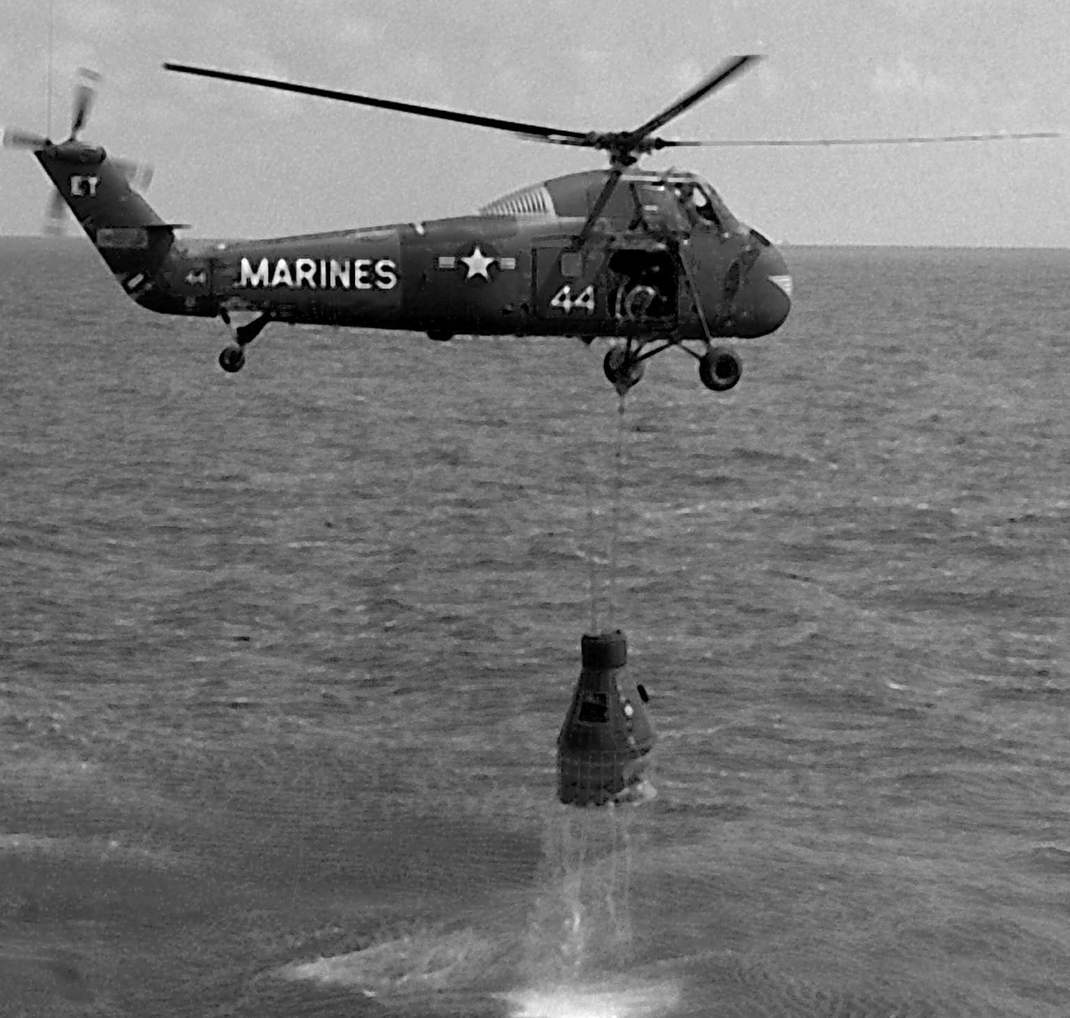 The recovery of the Freedom 7 (MR-3) capsule by a U.S. Marine Sikorsky HUS-1 helicopter from Marine Medium Helicopter Squadron 262. The MR-3 mission successfully placed the first American astronaut, Alan Shepard, in space for 15-1/2 minutes and returned safely to Earth on 5 May 1961.